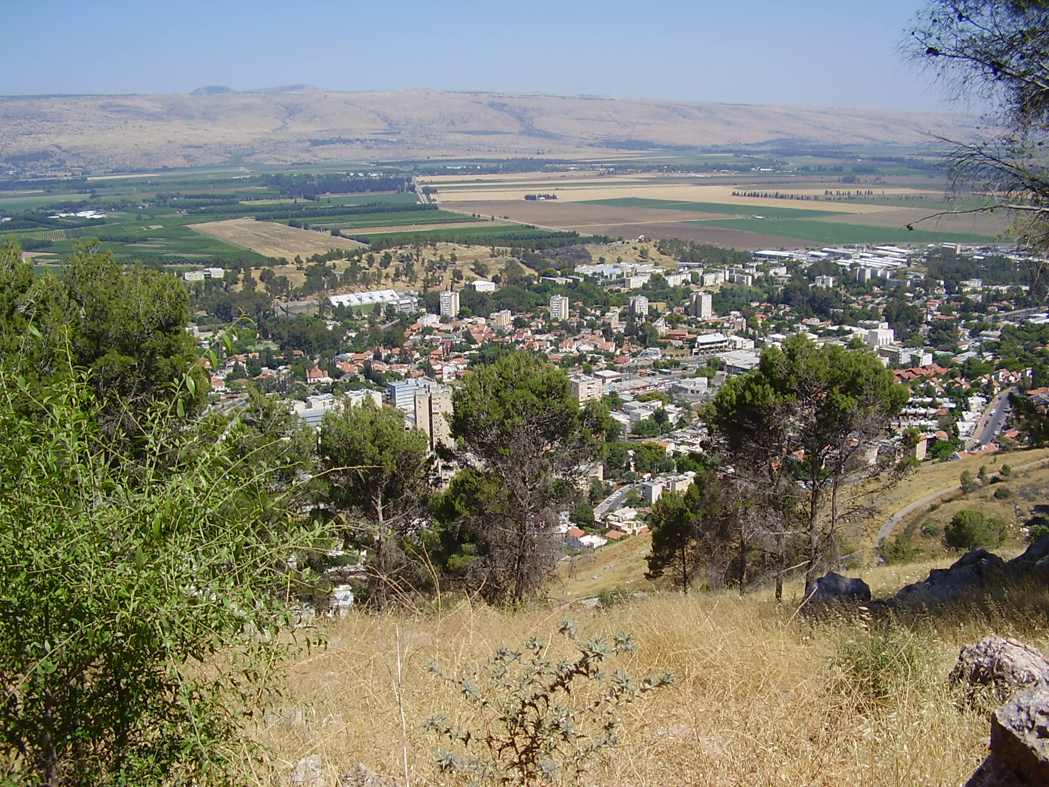 Kiryat Shmona and Hula Valley from Mitzpe Liran, Naftali Mts.